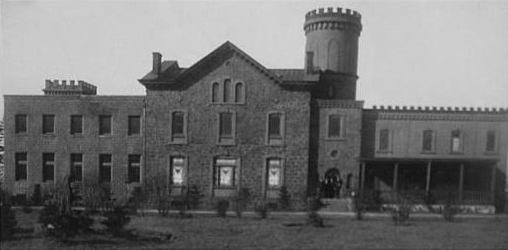 Garden State Crematory prior to renovation, taken in 1907.